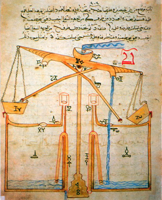 Diagram from book by Al-Jazari, 7th century AH (13th century AD) in the Süleymaniye Library, Istanbul.